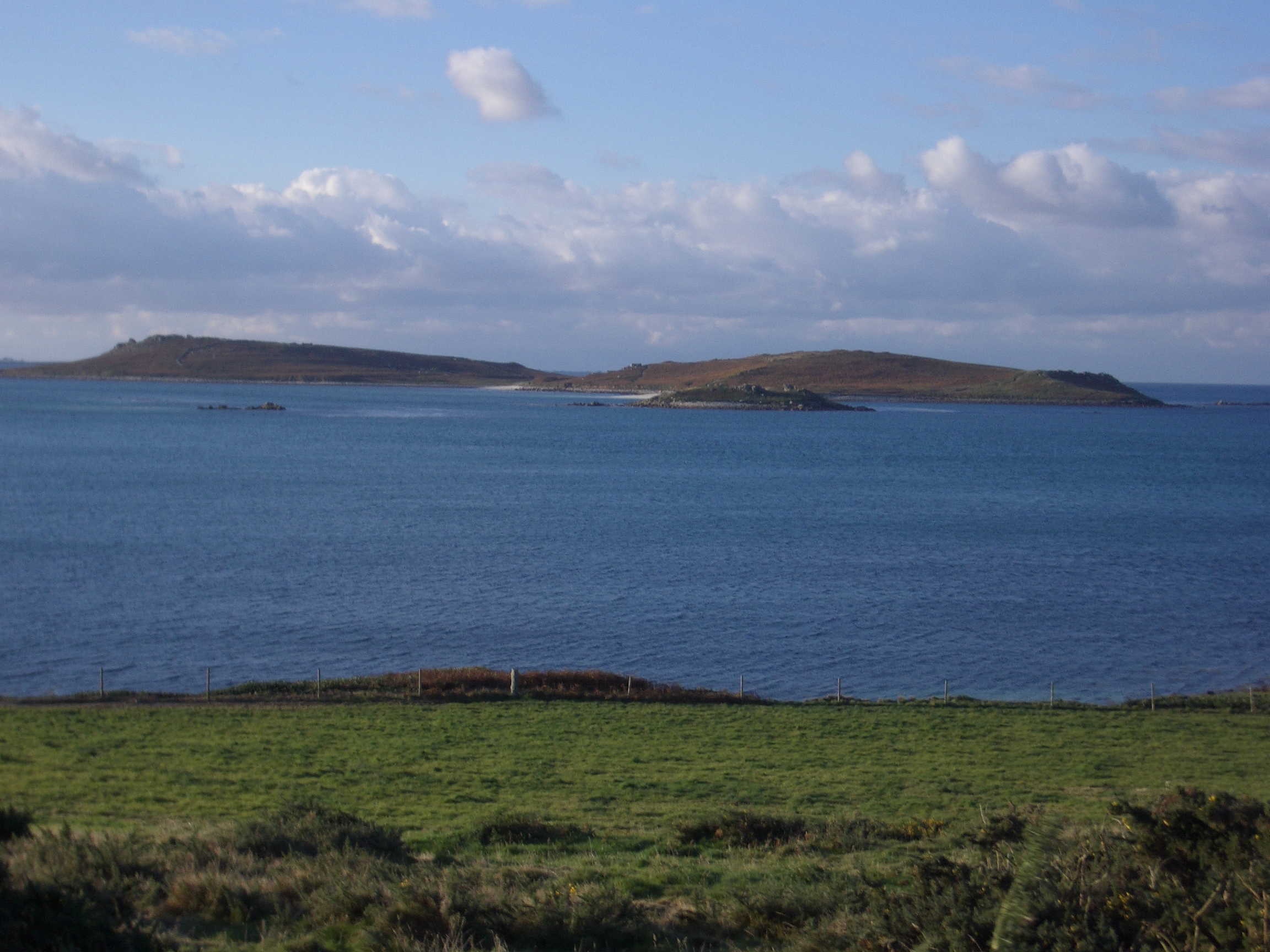 Samson, one of the uninhabited islands of the Isles of Scilly